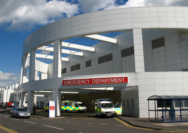 Emergency Department of Edinburgh Royal Infirmary, opened 2003.